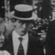 Robert Harron in a scene from the movie "The Painted Lady" (1912, directed by David Wark Griffith).